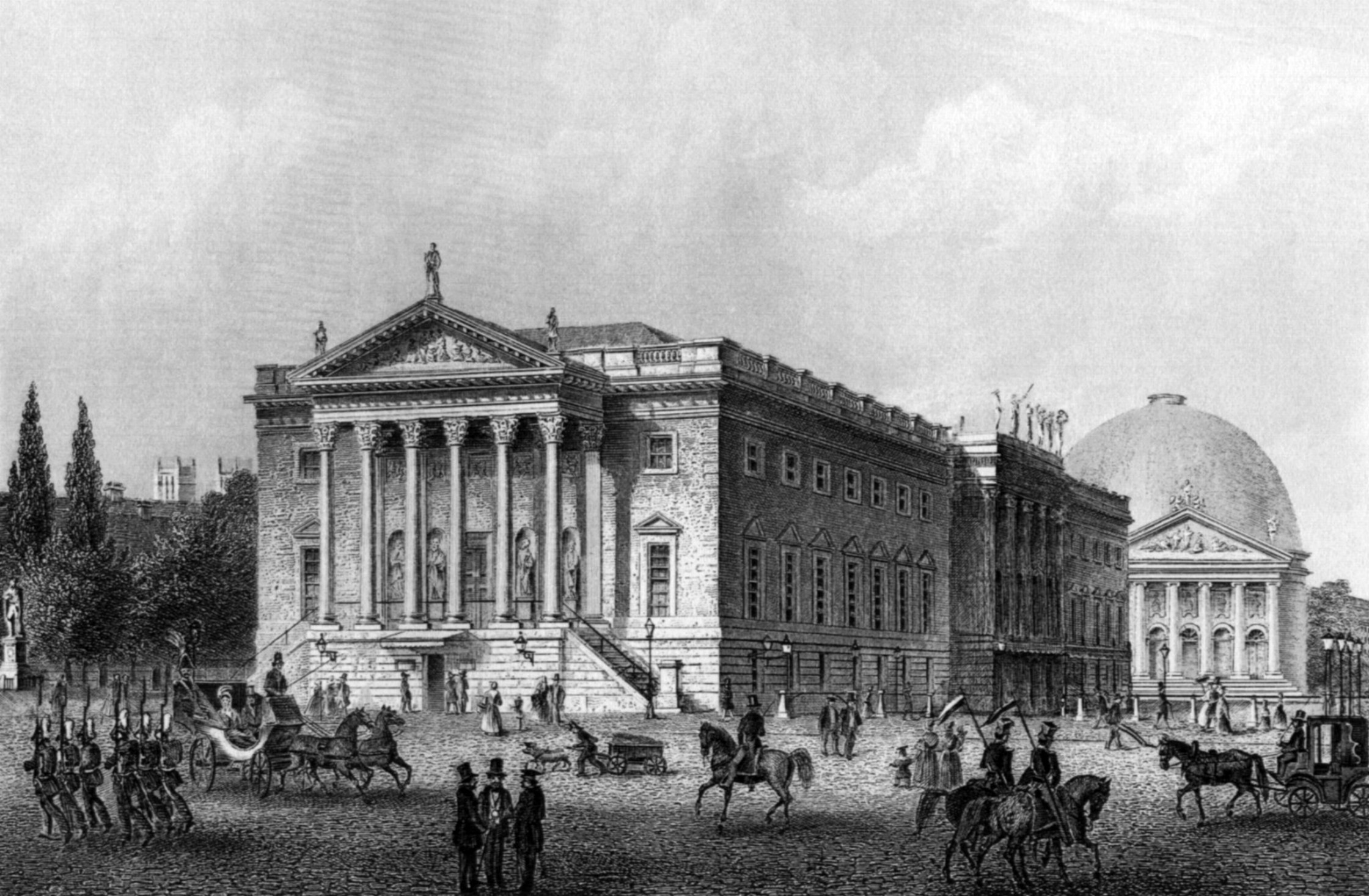 Berlin, the Opera House at the opera place. Steel engraving by Joseph Maximilian Kolb, 1850.